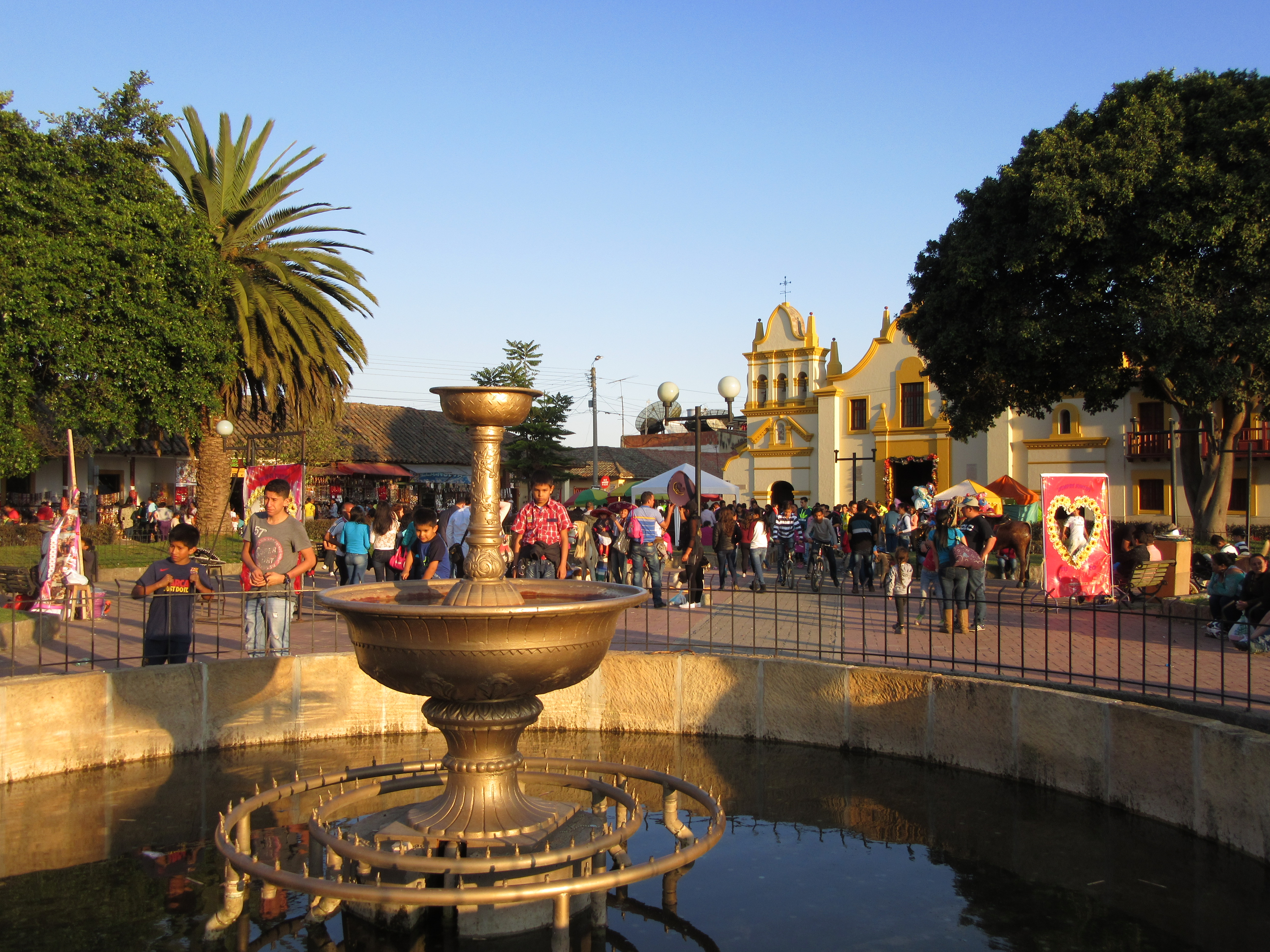 Bojacá - Fuente de la plaza central